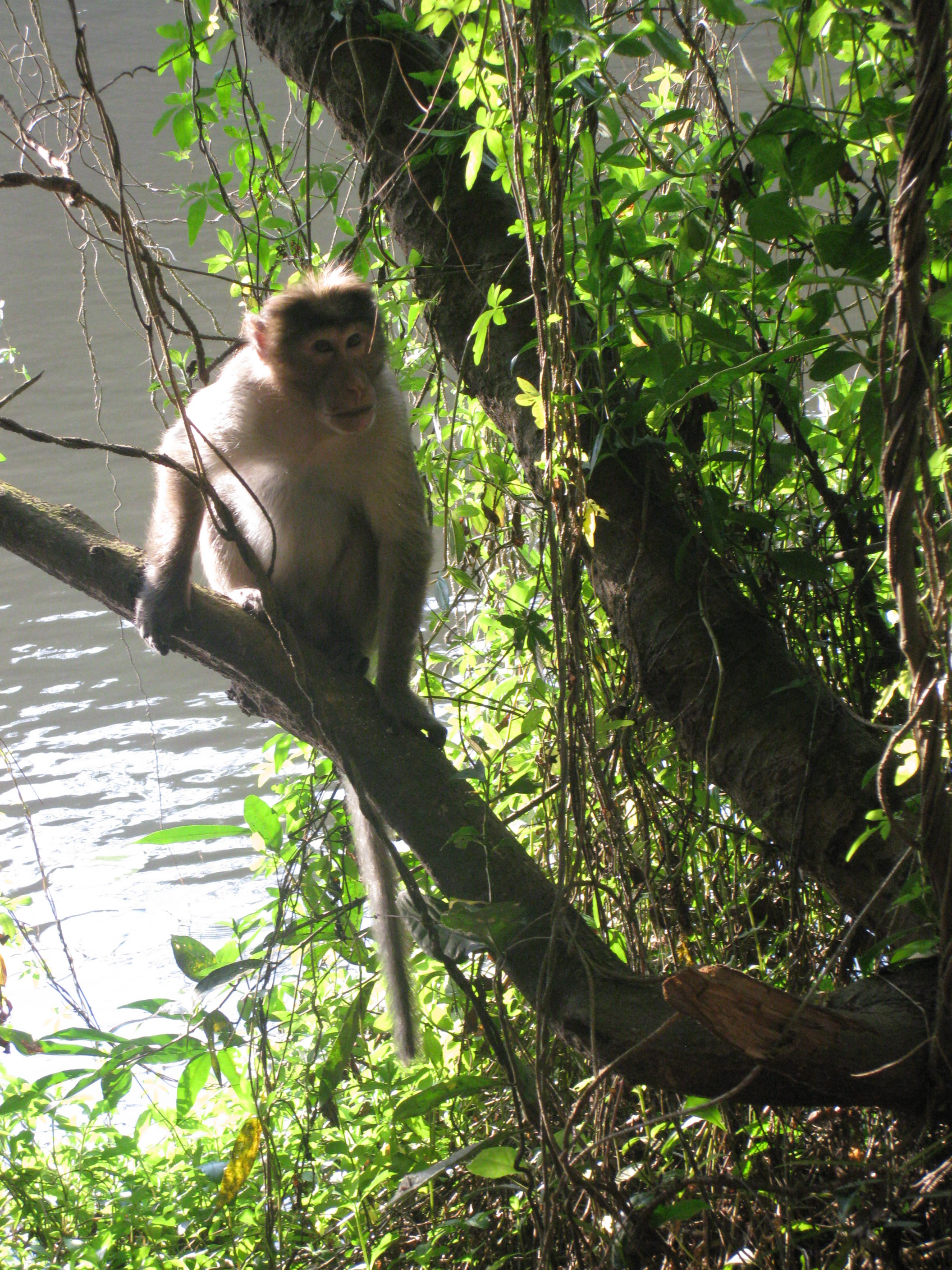 a monkey from pookote lake wayanad